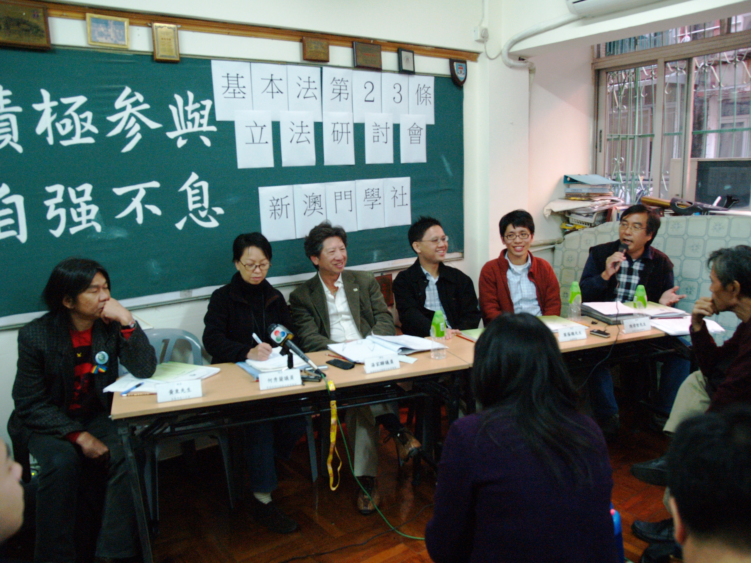 Article 23 panel, organized by New Macau Association